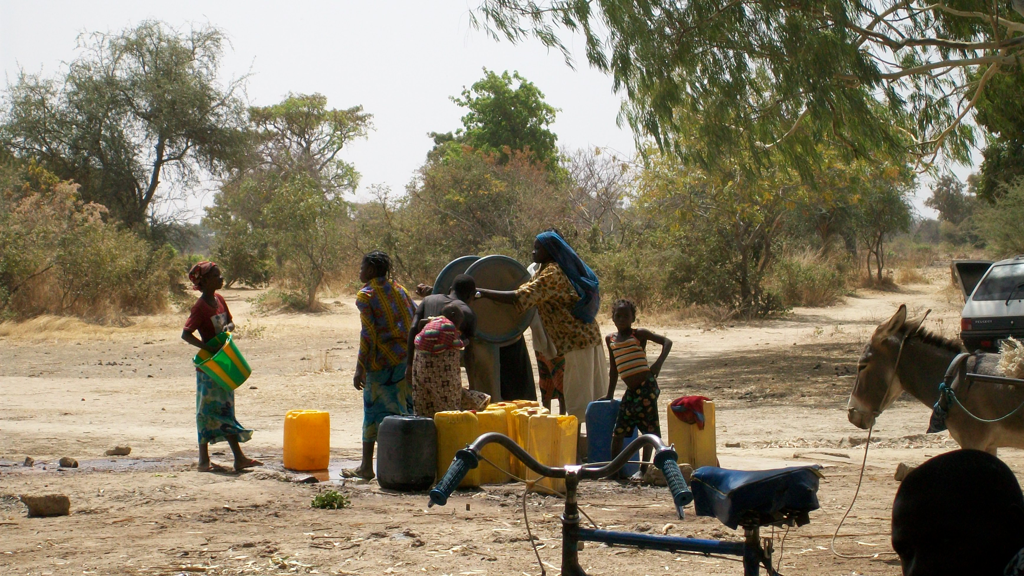 A village pump in Burkina Faso. The tree nursery is situated next to the water pump in the village to make watering.